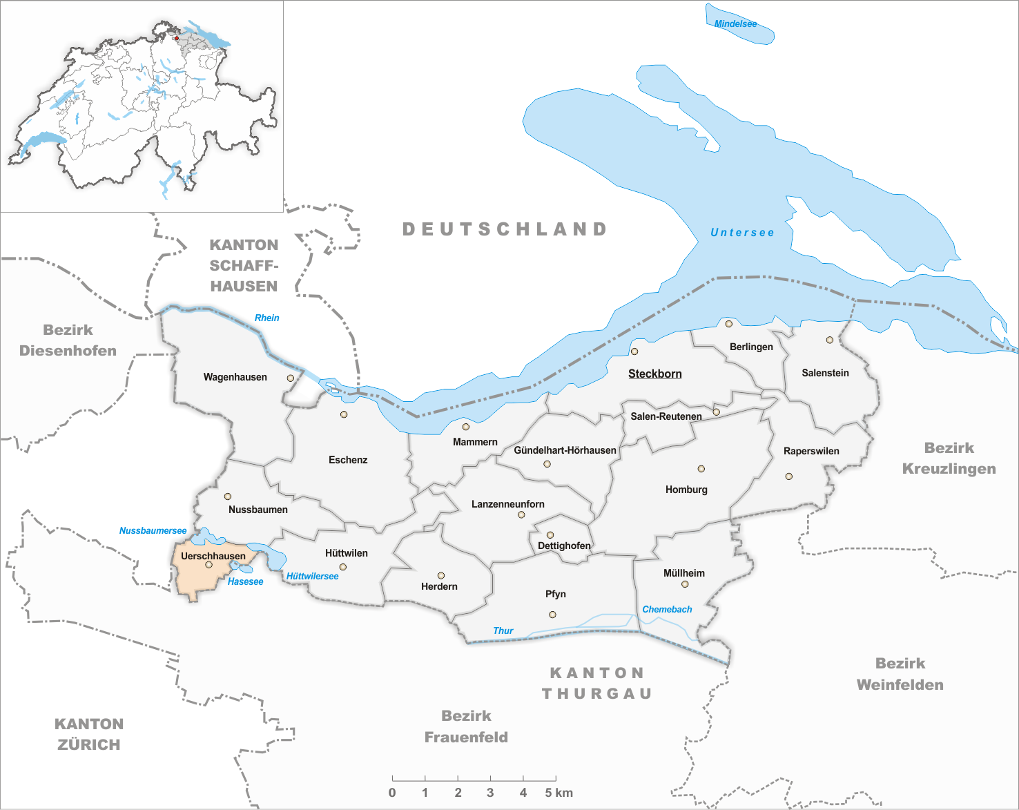 Municipality Uerschhausen